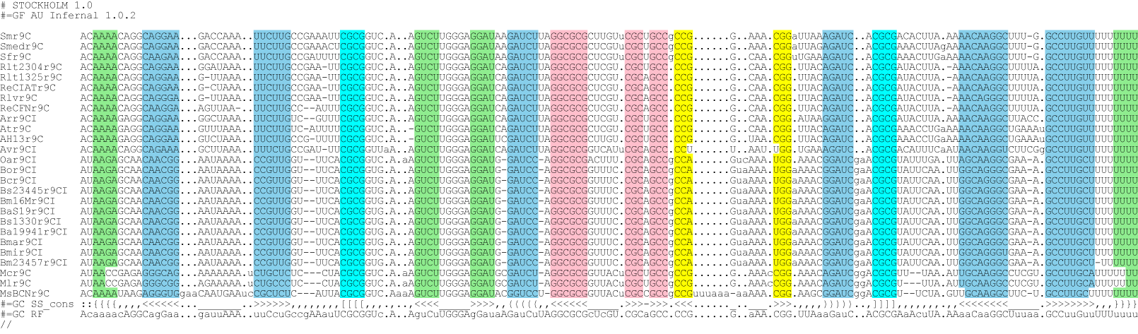 9C stockholm